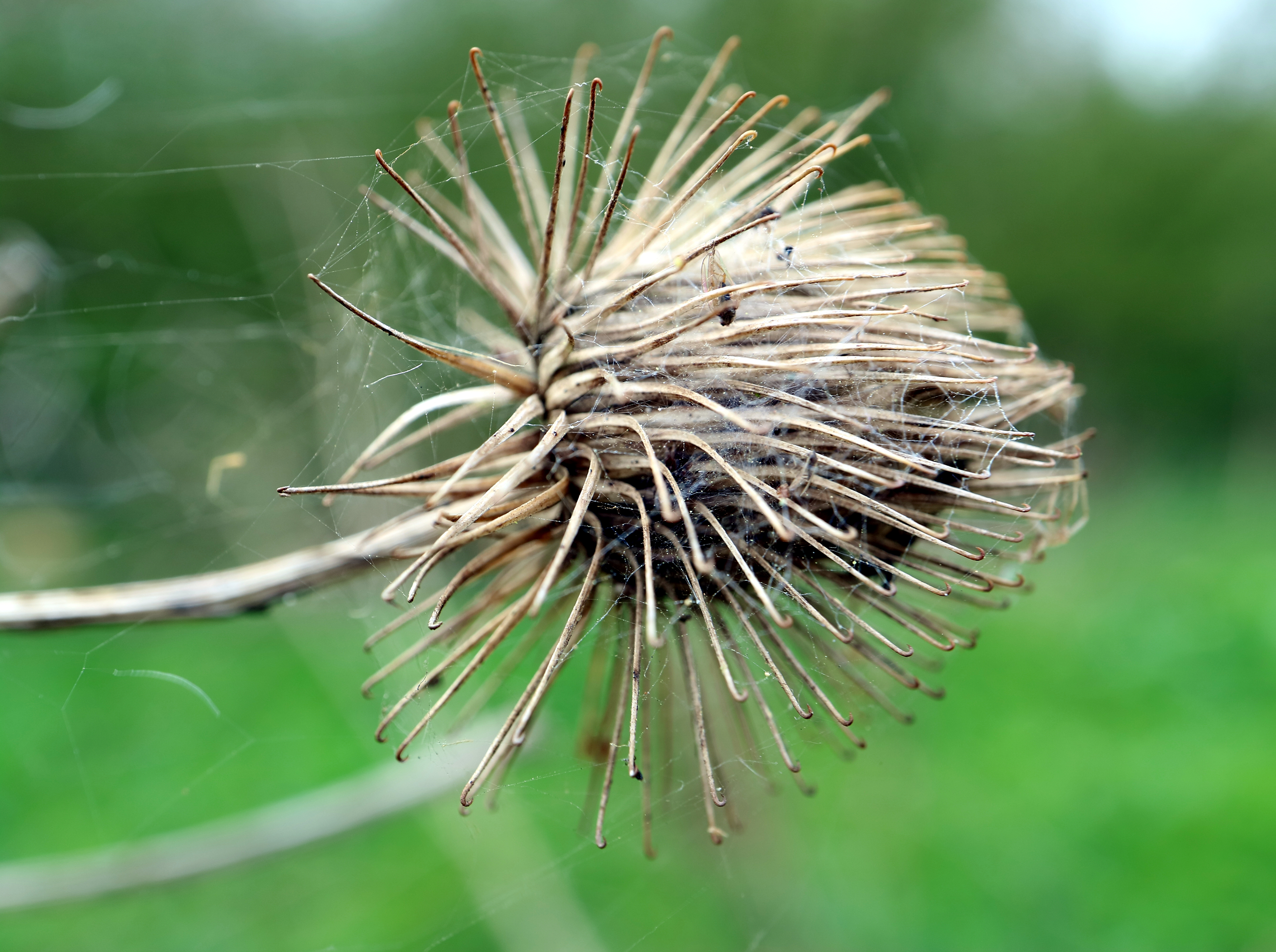 Macro photograph of a single Arctium bur. The sharp hook structures are clearly visible.